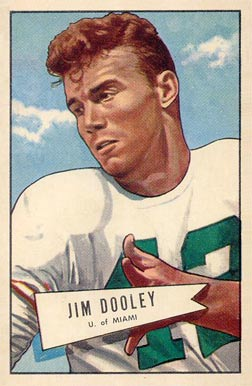 American football player Jim Dooley on a 1952 Bowman Large card.